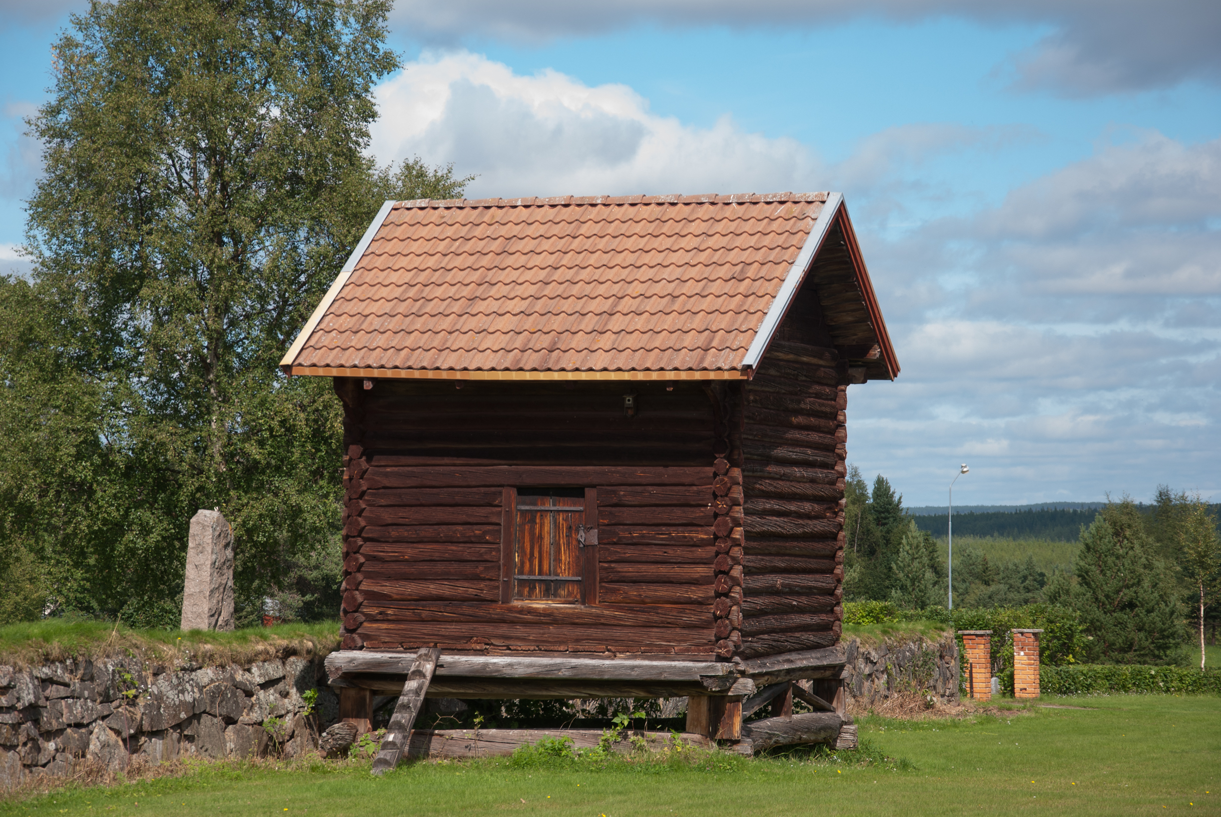 Prästbod, Lillhärdal kyrka.